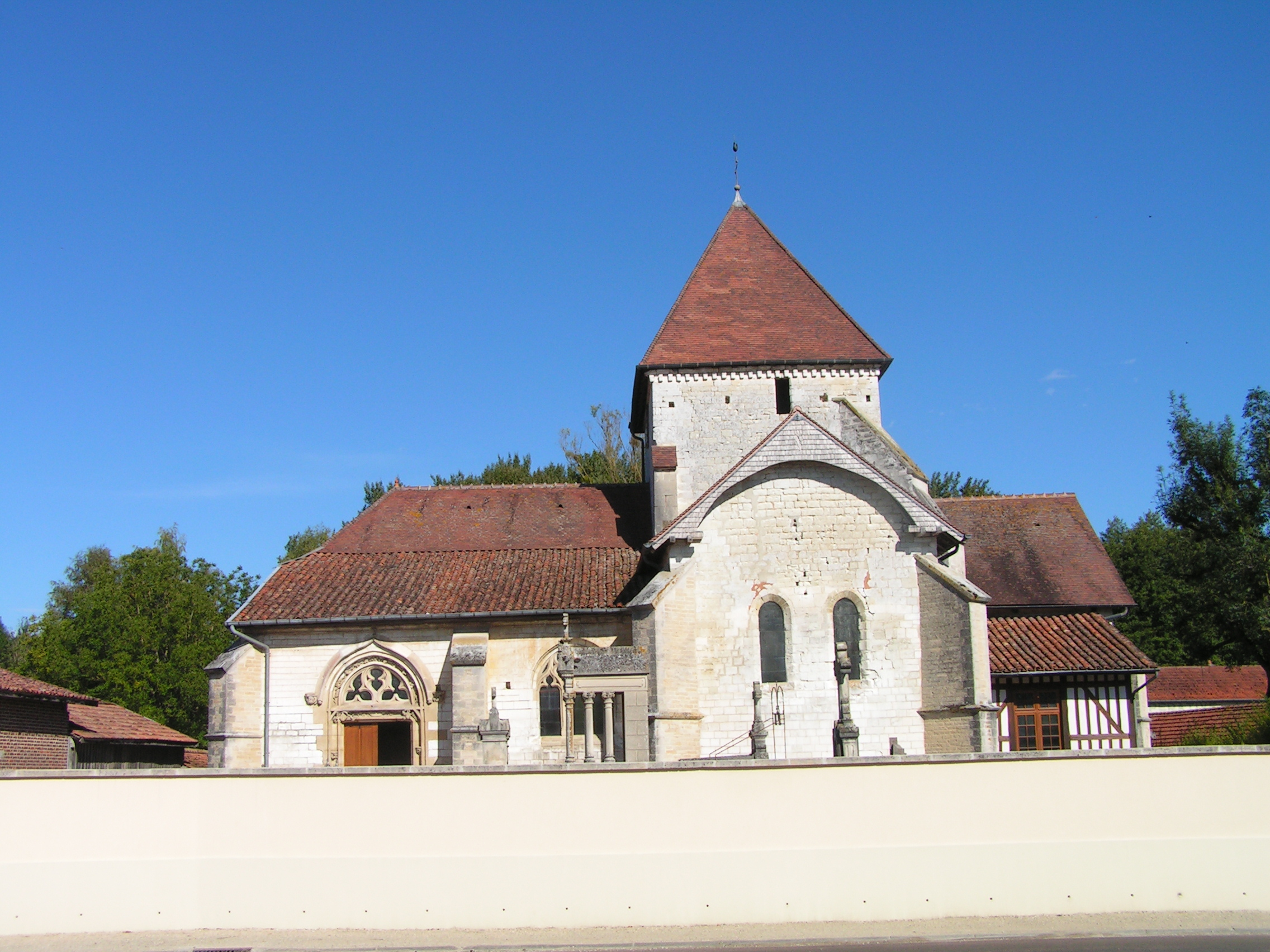 Église Saint-Armand, the church in Donnement, Aube, France. .